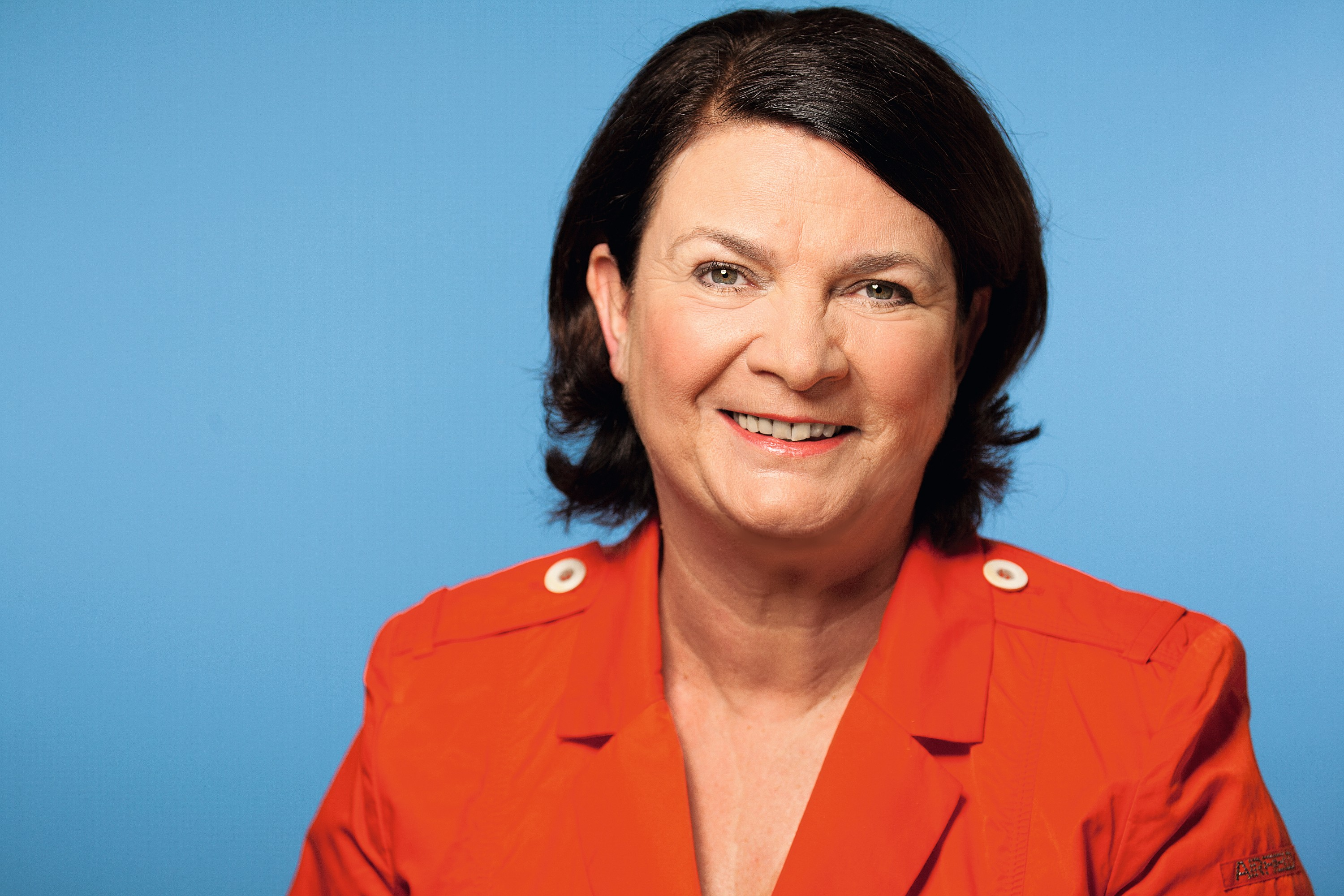 Constanze Krehl portrait